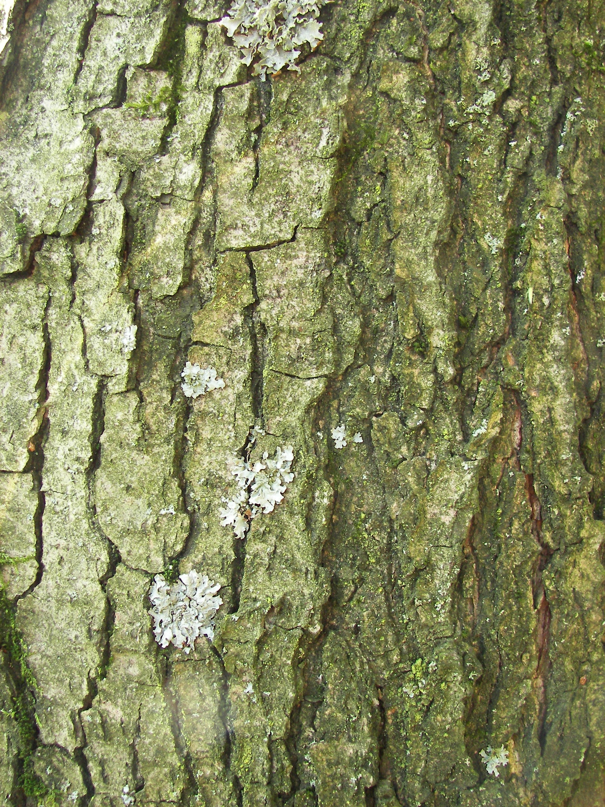 Bark